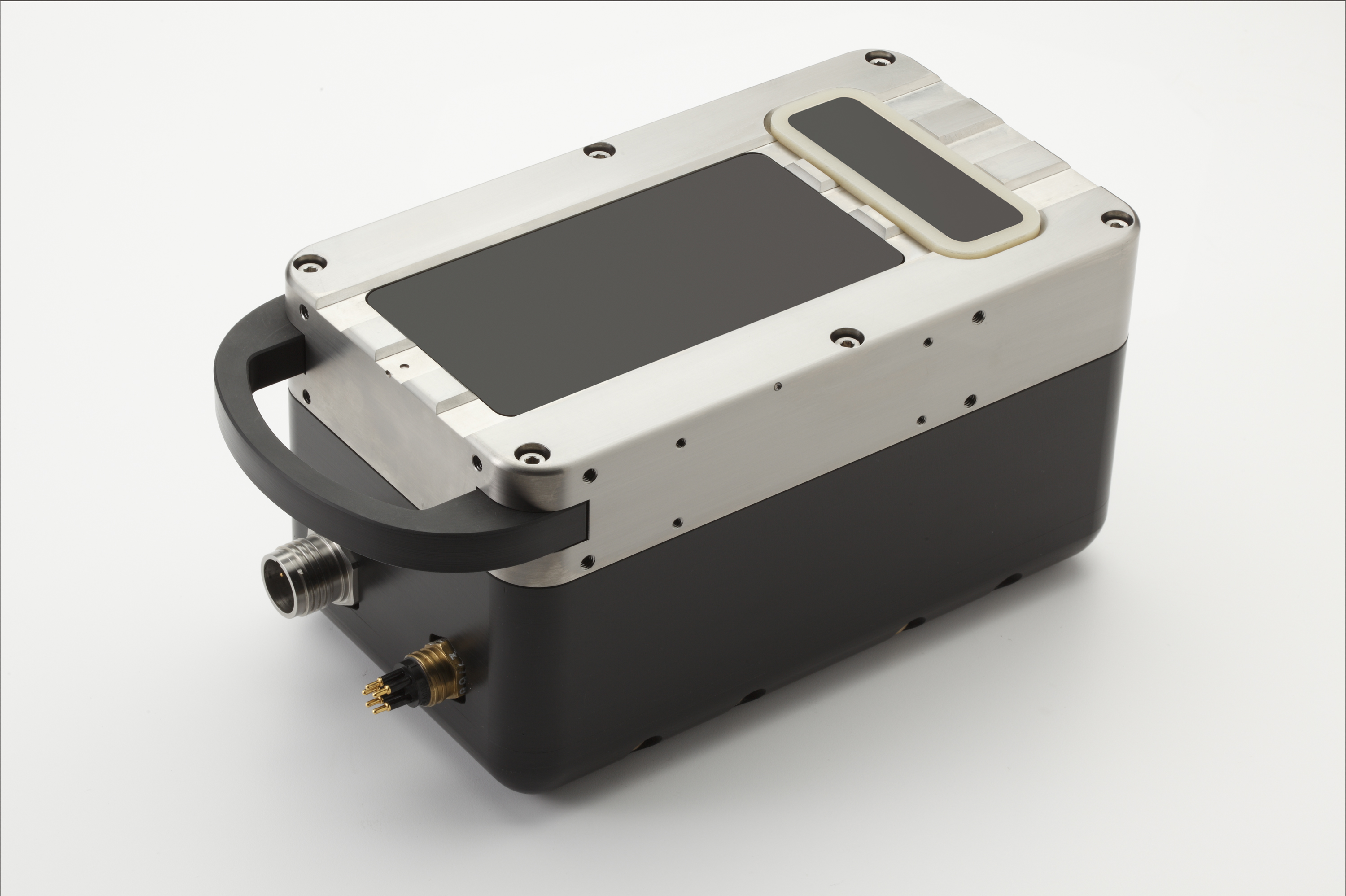 Hydrographic multibeam echosounder, showing the seperate transmit and receive arrays on the face of the unit.